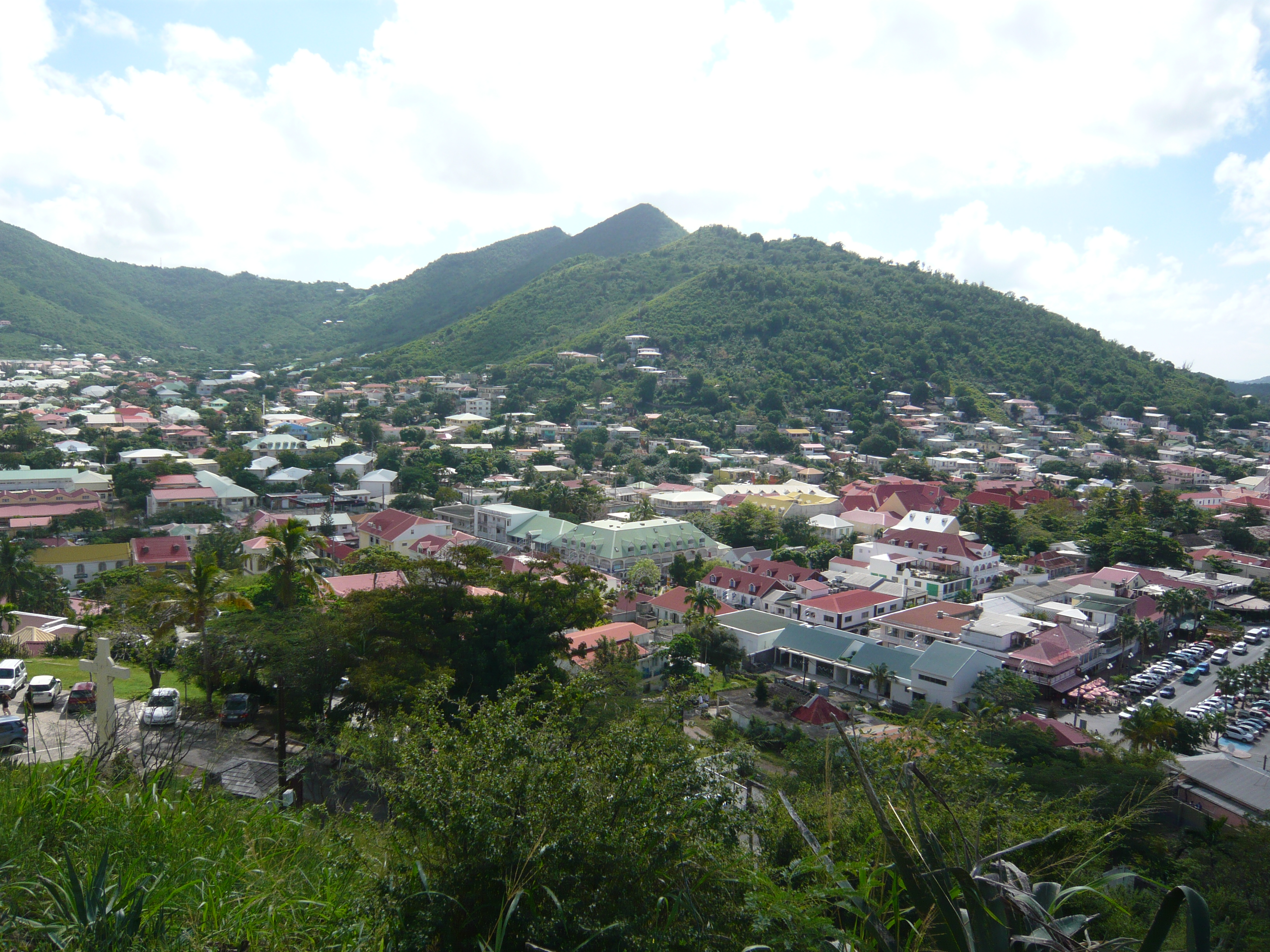 View from Fort St. Louis, Marigot, Saint-Martin, Jan 2010.